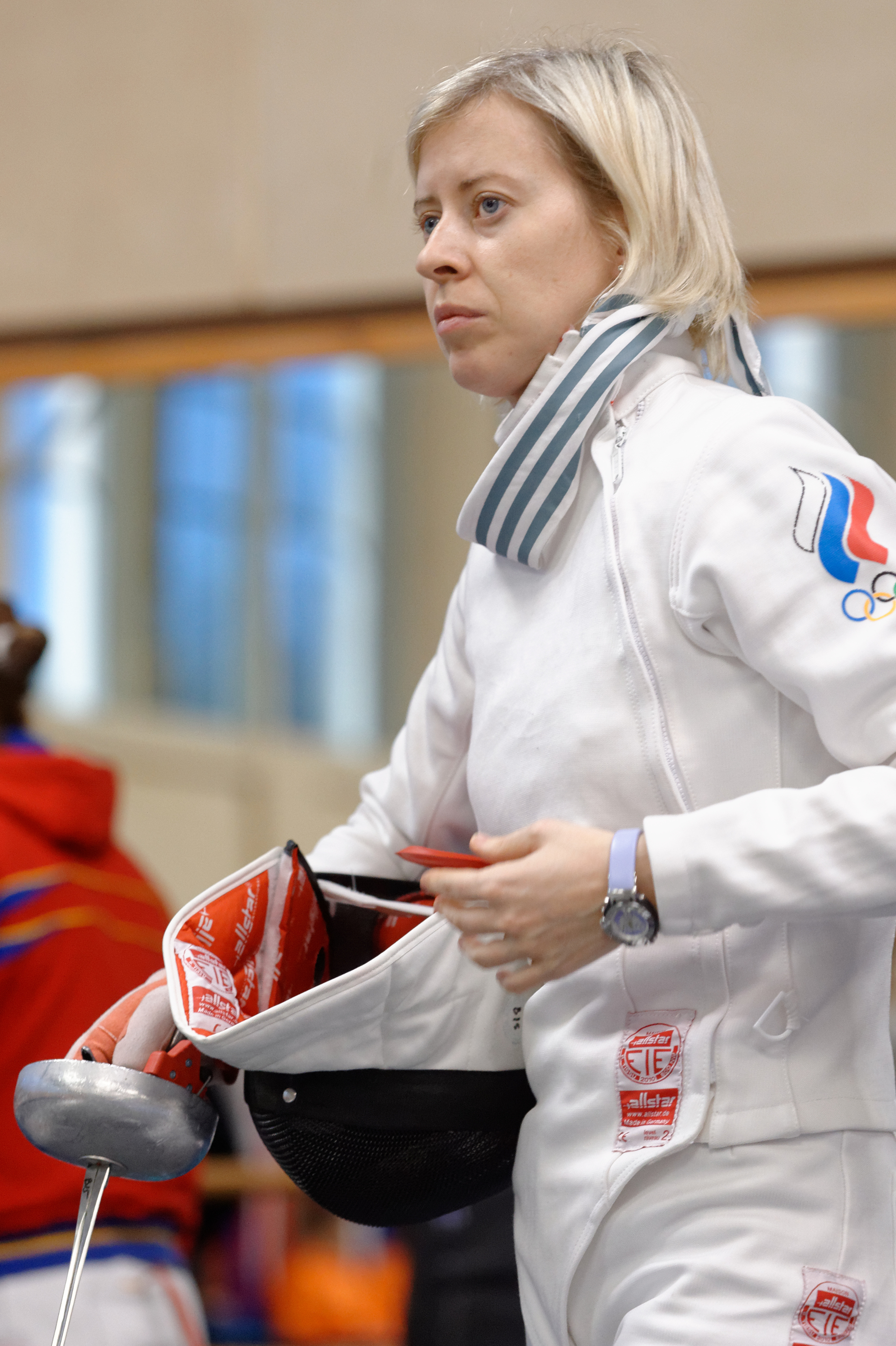 Russia's Tatiana Logunova during the qualification stage of the 2015 Trofeu International Ciutat de Barcelona, a women's épée World Cup competition.